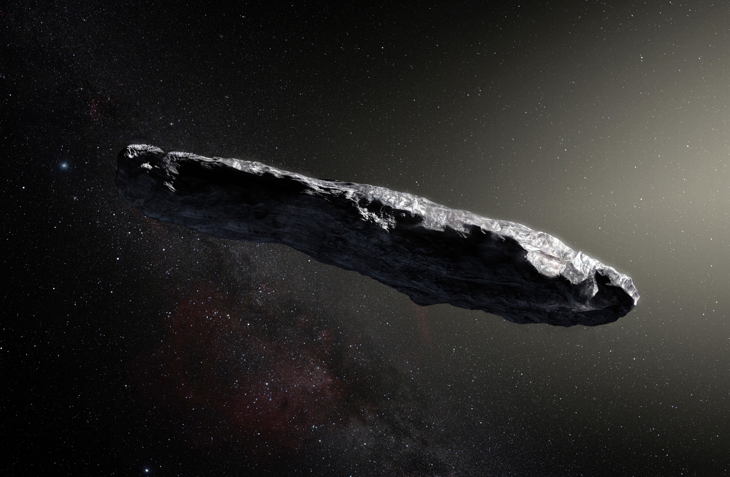 This artist’s impression shows the first interstellar asteroid: `Oumuamua. This unique object was discovered on 19 October 2017 by the Pan-STARRS 1 telescope in Hawai`i. Subsequent observations from ESO’s Very Large Telescope in Chile and other observatories around the world show that it was travelling through space for millions of years before its chance encounter with our star system. `Oumuamua seems to be a dark red highly-elongated metallic or rocky object, about 400 metres long, and is unlike anything normally found in the Solar System.